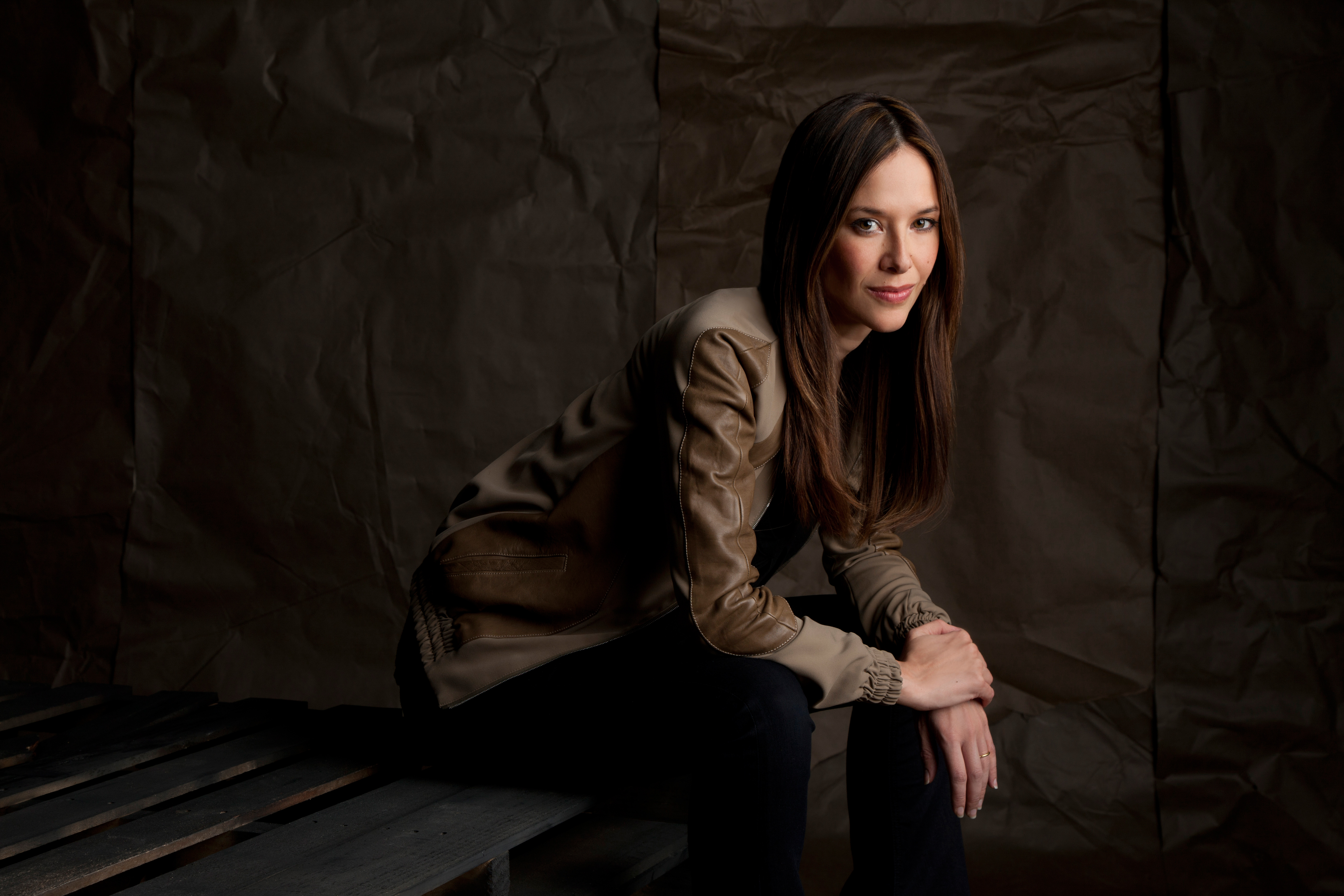 Ubisoft Toronto Managing Director Jade Raymond(Feb 2012)